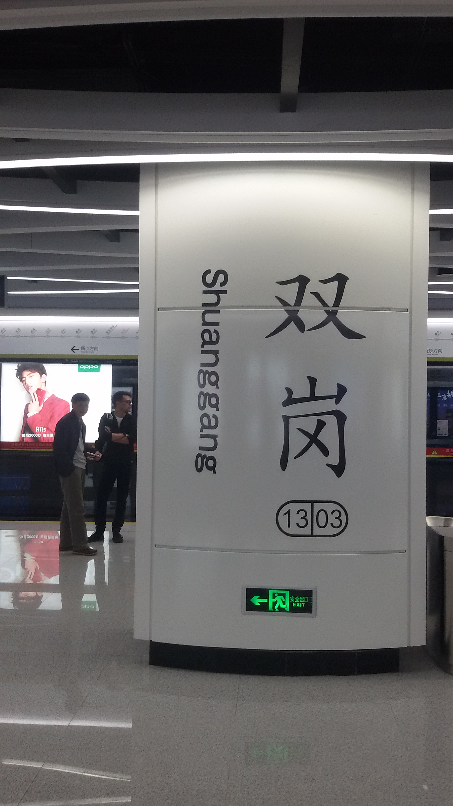 WORD on PILLAR for Shuanggang Station in Guangzhou Metro